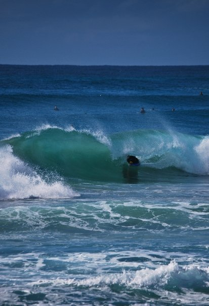 completely unrelated image to article.